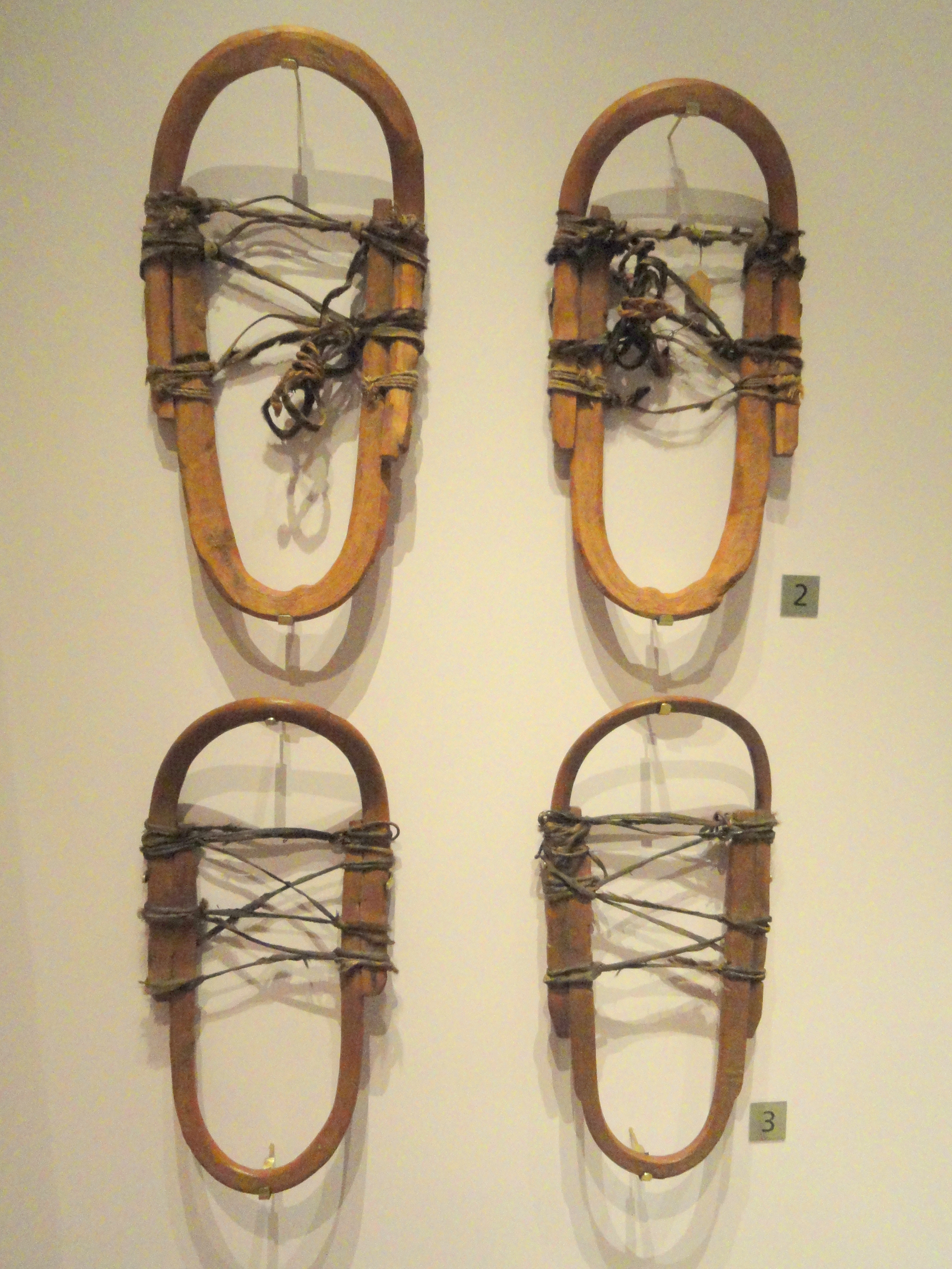 Exhibit in the Royal Ontario Museum, Toronto, Ontario, Canada. This exhibit is old enough so that it is in the public domain, and photography was permitted in the museum. I took this photograph and release it into the public domain.